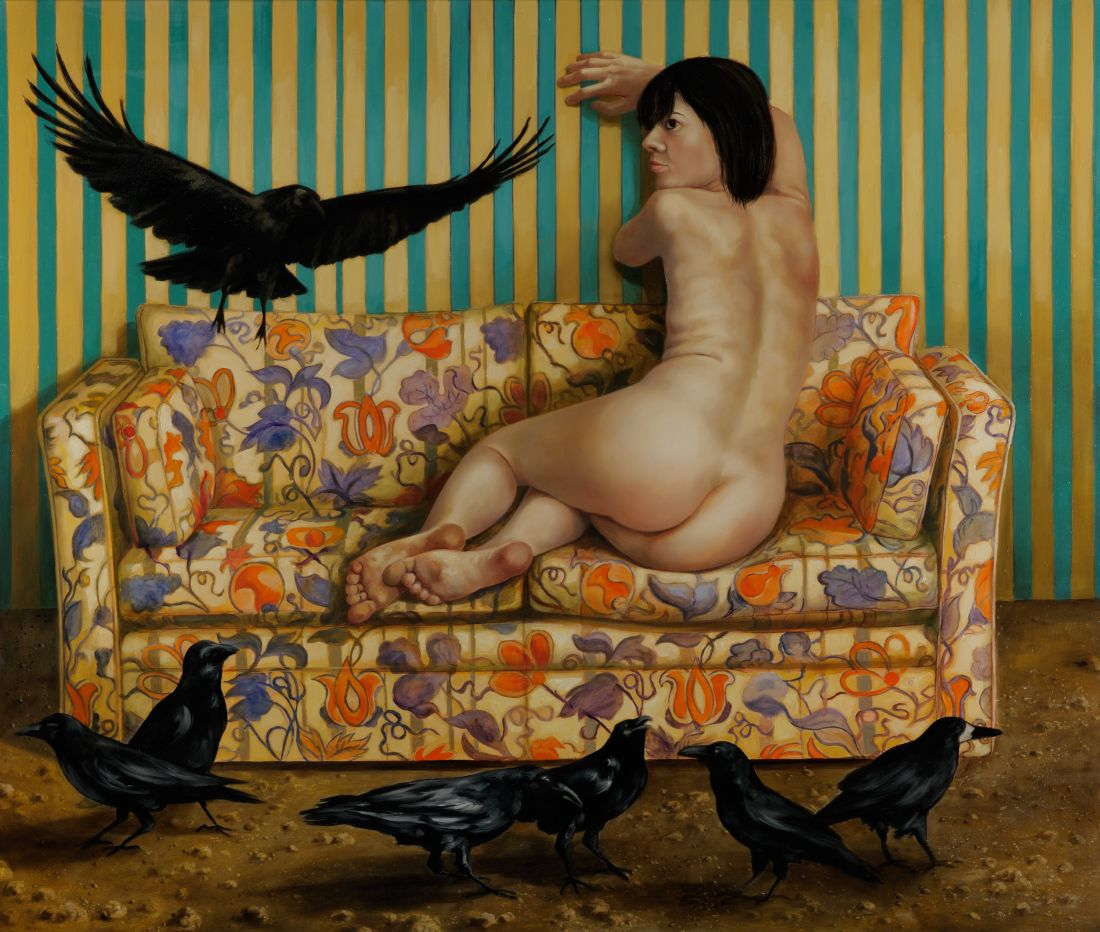 Thomas Gatzemeier The Birds 2008 Oil on canvas 110x130 cm